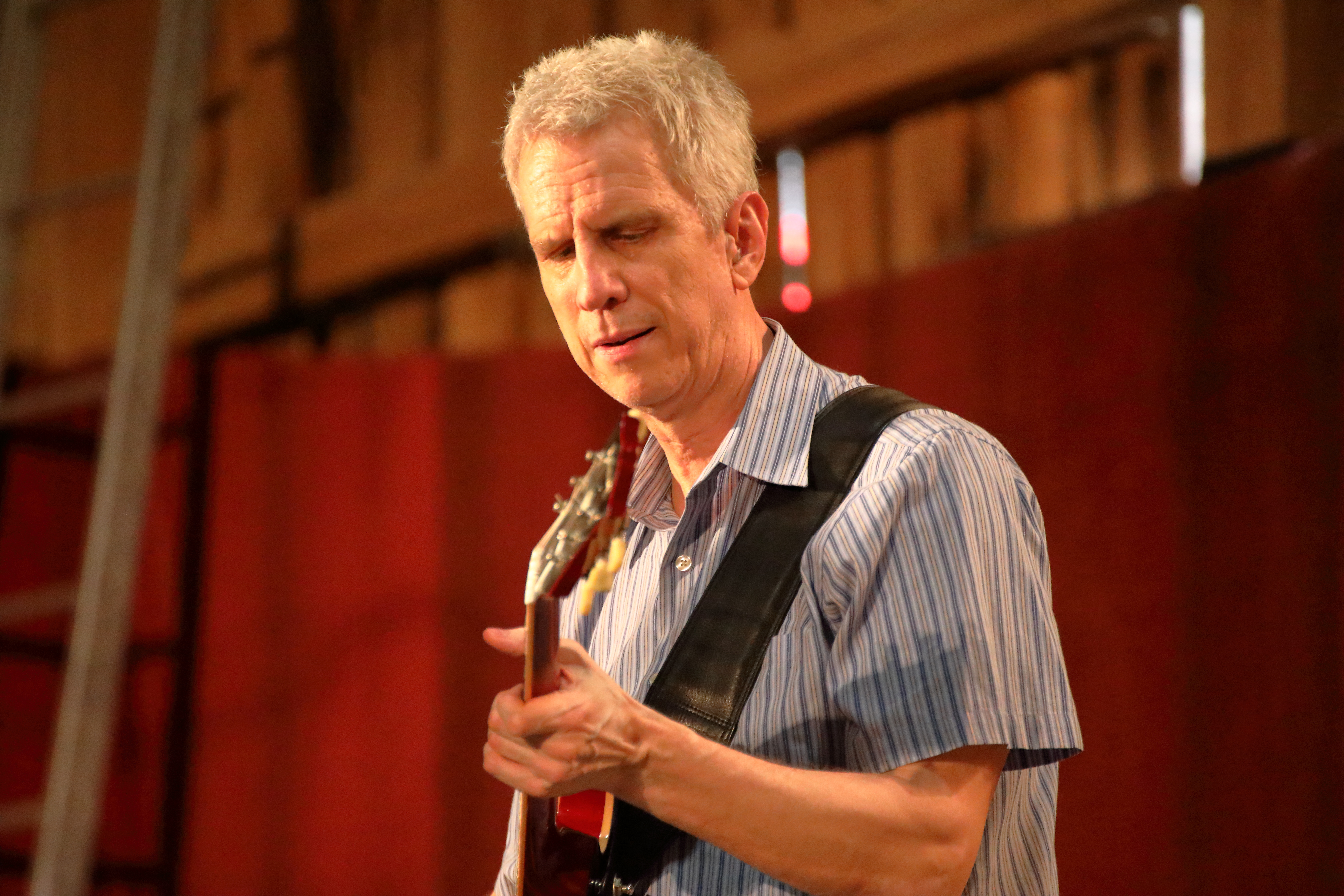 Thelonious with special guest Steve Cardenas at INNtöne Jazzfestival 2019. Lineup: Steve Cardenas (g}, Hans Koller (vtbo, euphonium), Martin Speake (as), Calum Gourlay (db) & ??? (dr).